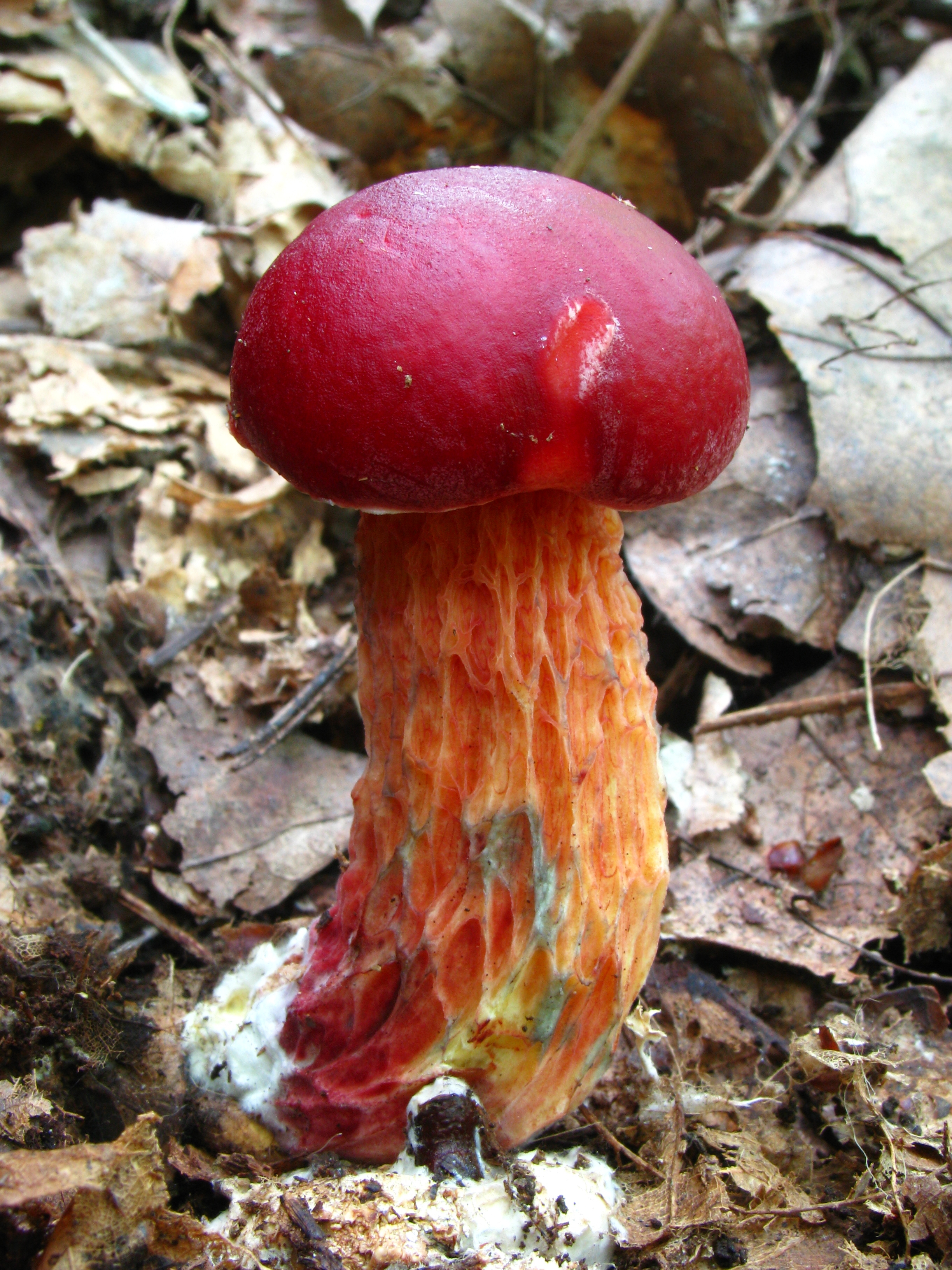 The mushroom Boletus frostii Russell. Photographed in Wayne National Forest, Athens Co., Ohio, USA.